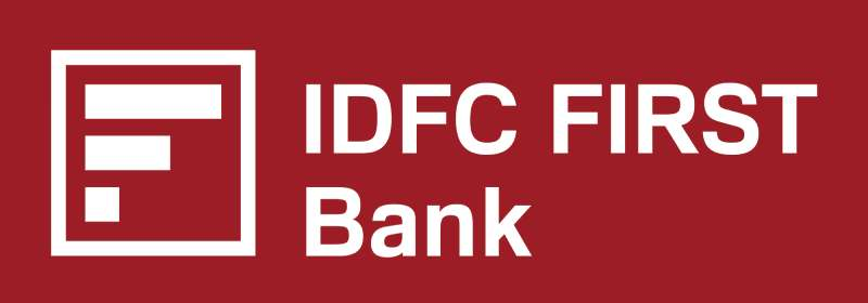 IDFC First Bank logo